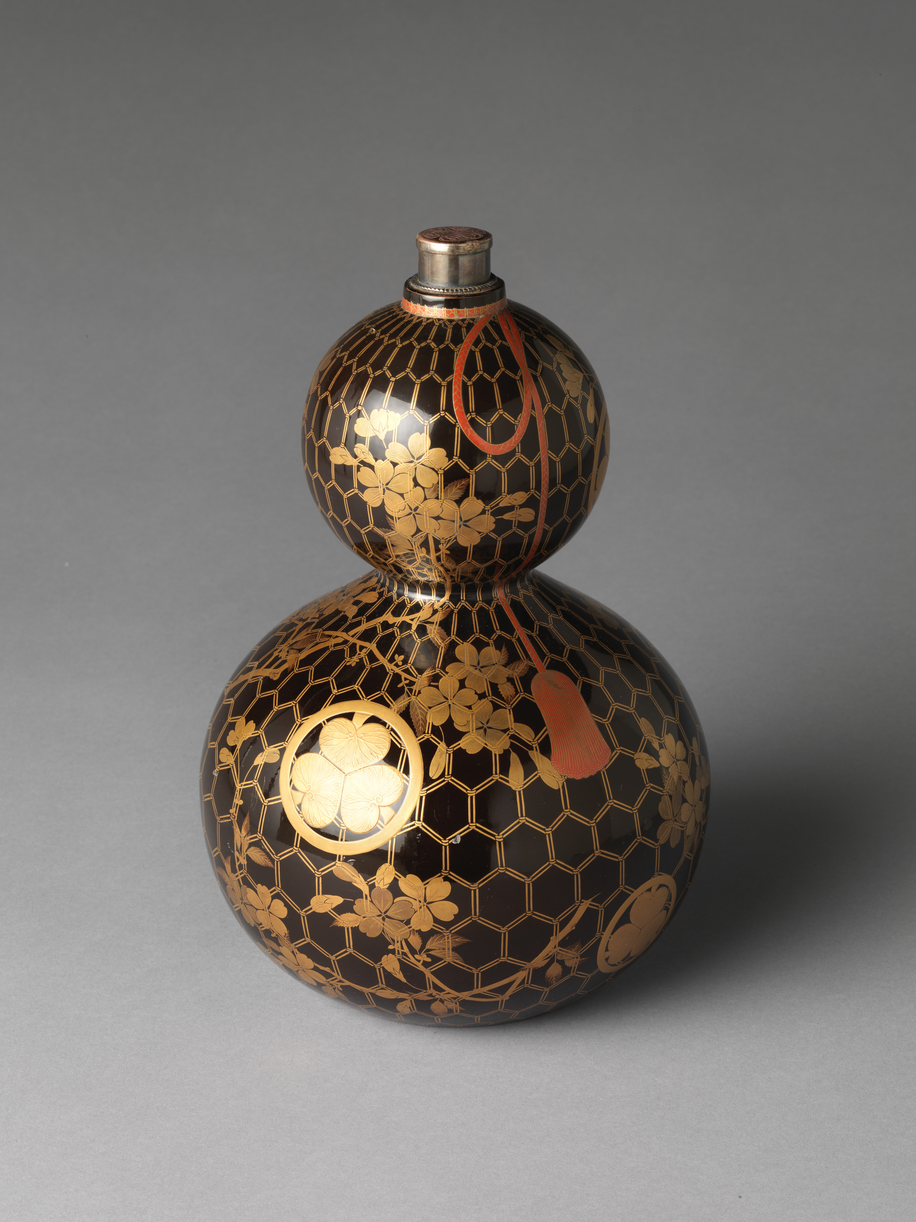 Gourd-Shaped Sake Bottle with Aoi Crests. Black lacquer with gold maki-e and silver togidashi. 18th century, Edo period.